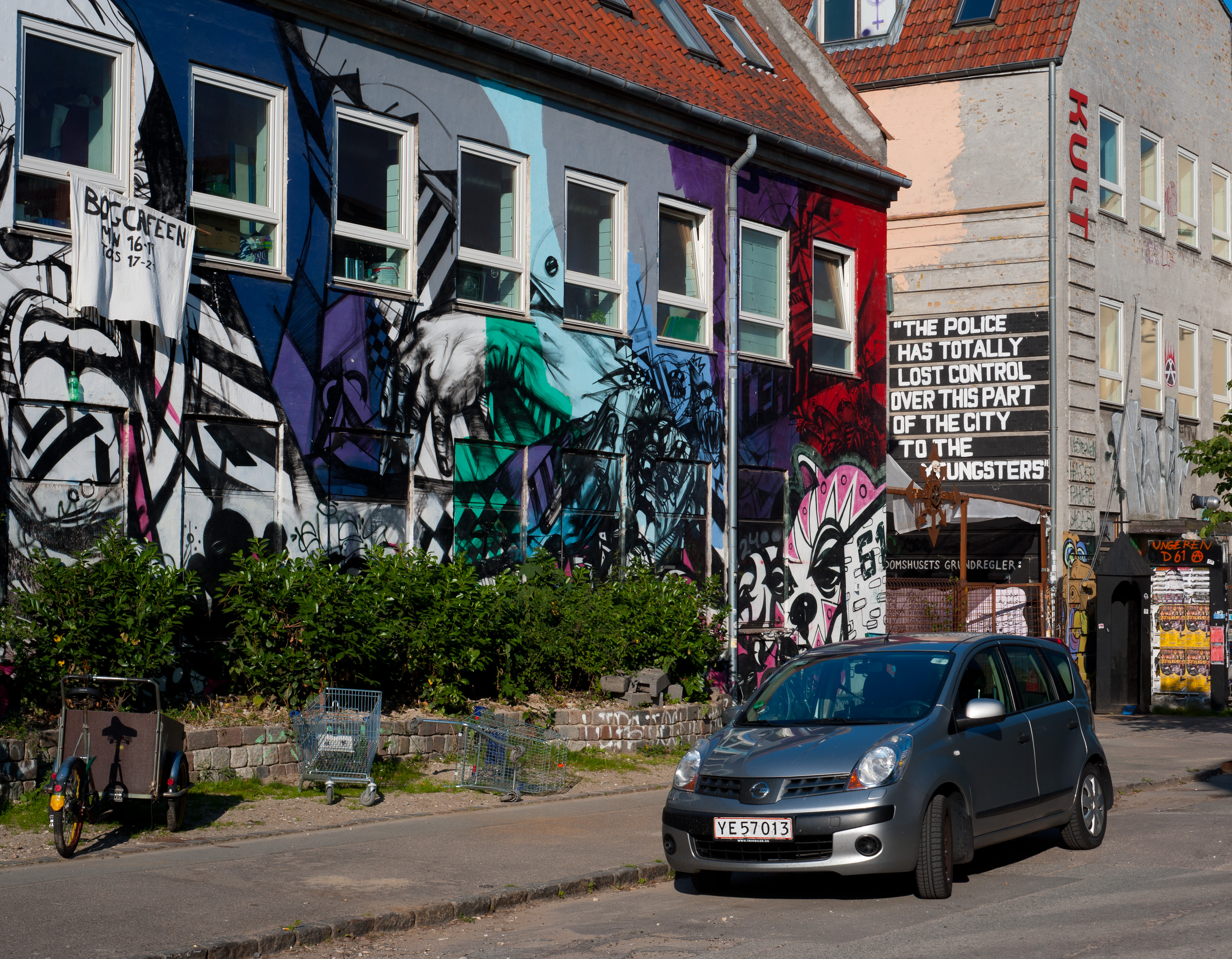 The second Ungdomshus (lit.: Youth house) in Copenhagen. Located on Dortheavej 61.